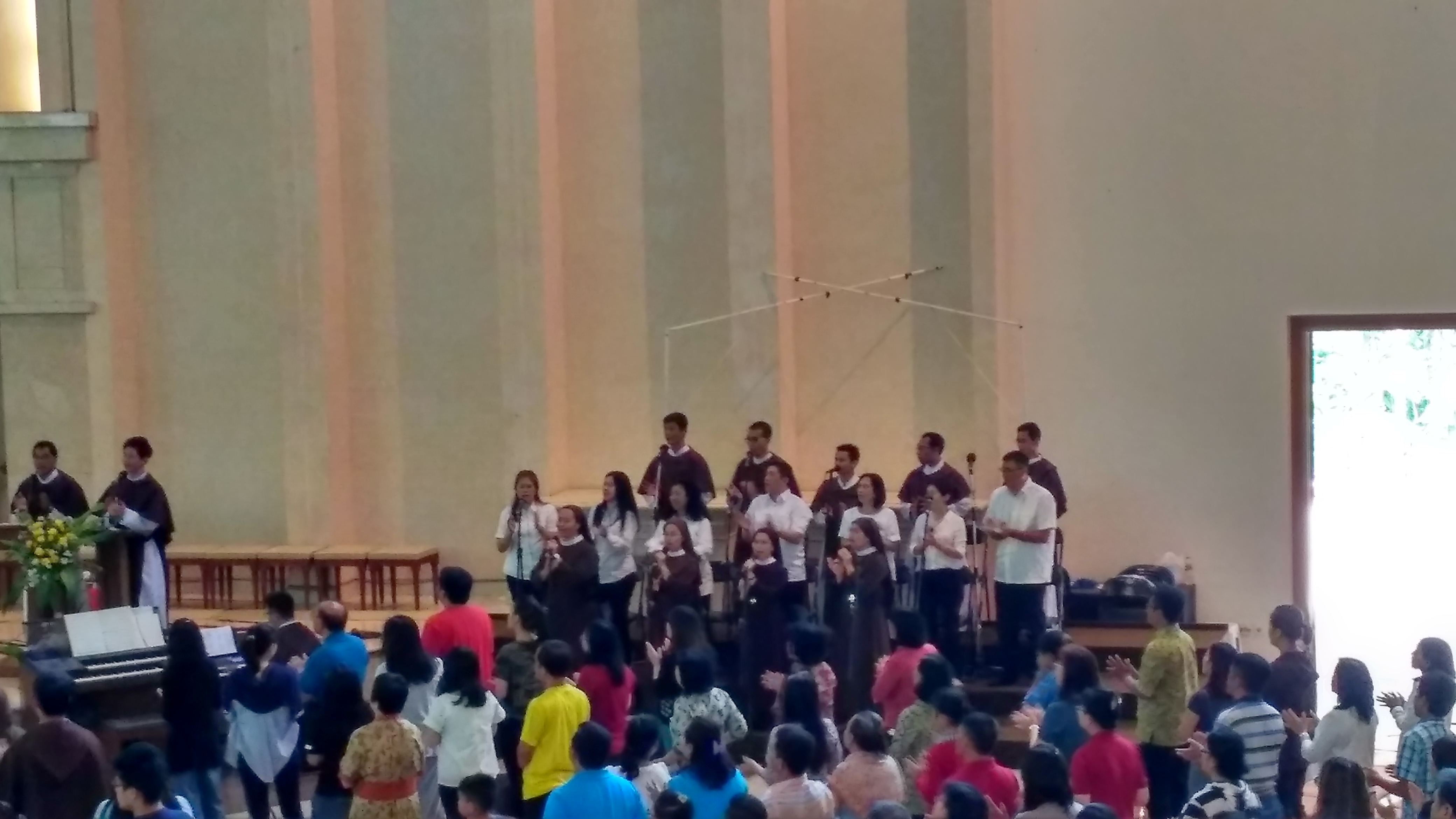 Some Carmelite friars and nuns, as well some members of Komunitas Tritunggal Mahakudus (in white shirts), participate in the choir during the Healing Mass in the Seventh Sunday of Easter at Gedung Serba Guna St. Theresia, Lembah Karmel Retreat House, Cikanyere.